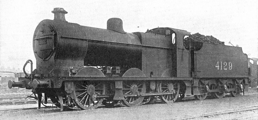 Typical British Freight Locomotives Standard (0-6-0) Freight Locomotive, LMS